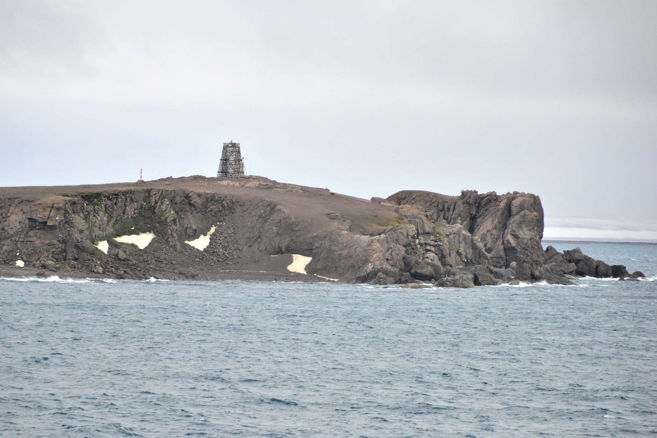 Cape Zhelaniya (Northernmost cape of Northern Island of Nowaya Semlya Archipelago, Russia; 76°57’N, 68°35’E)